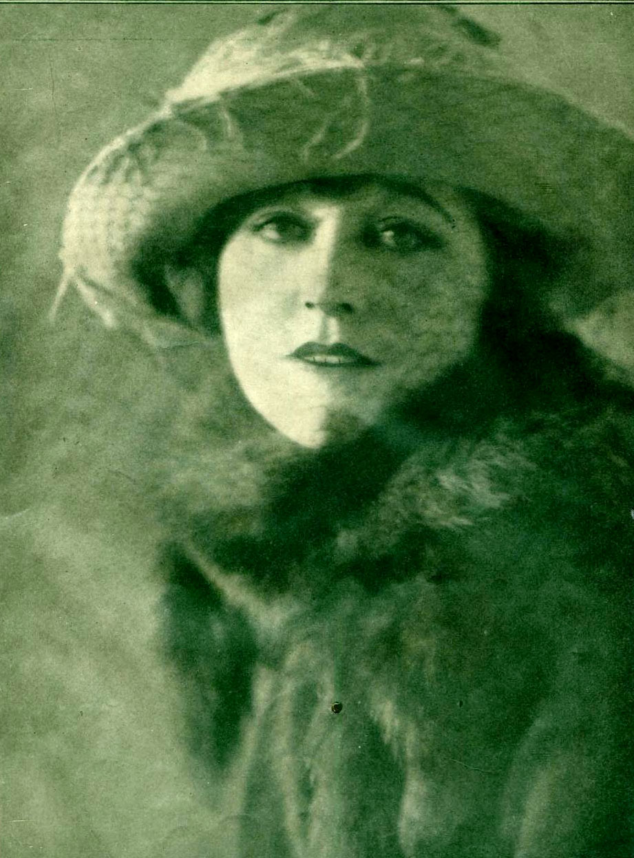 Ethel Clayton in Filmplay journal, January 1922